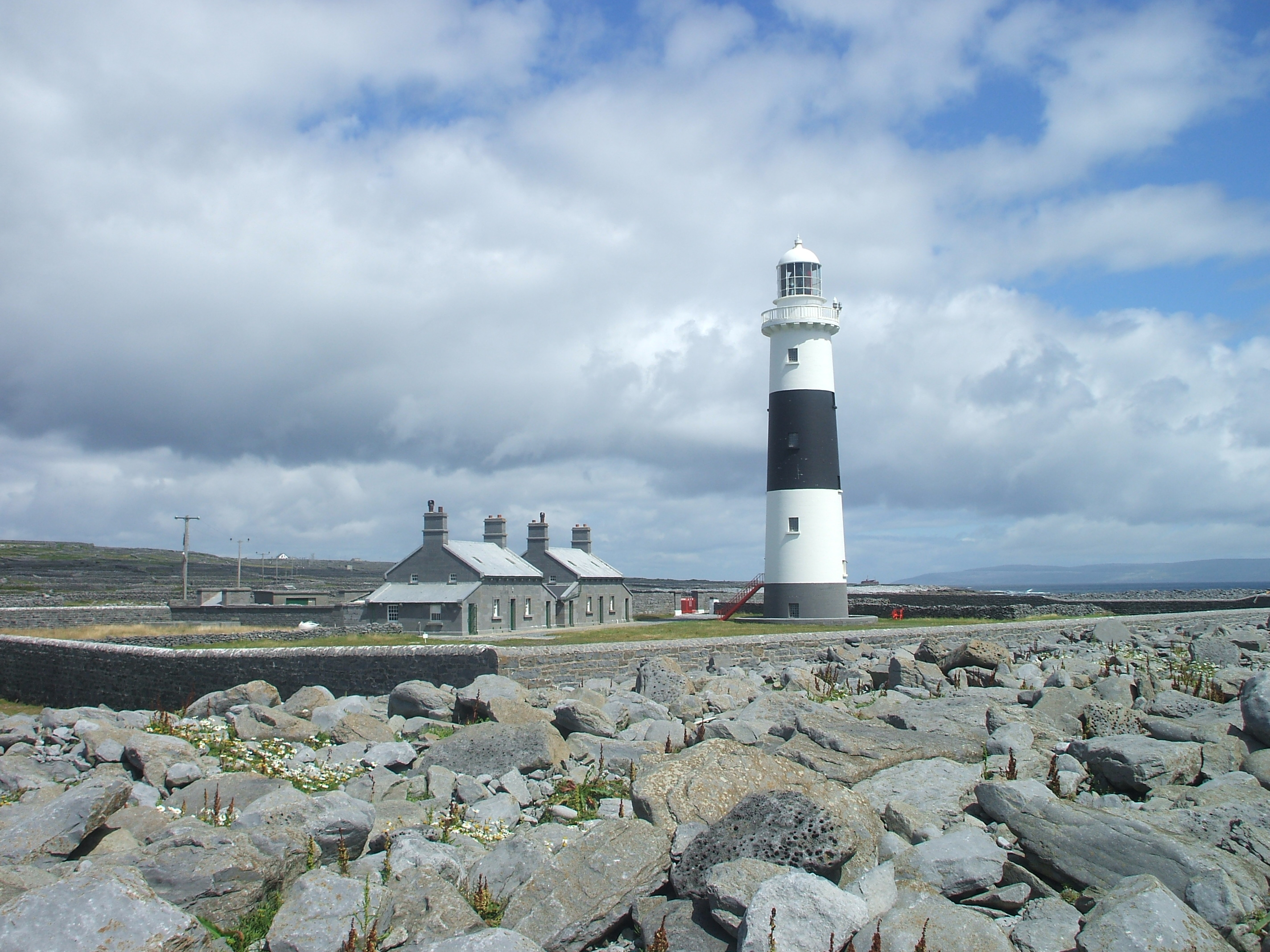 Taken July 2008